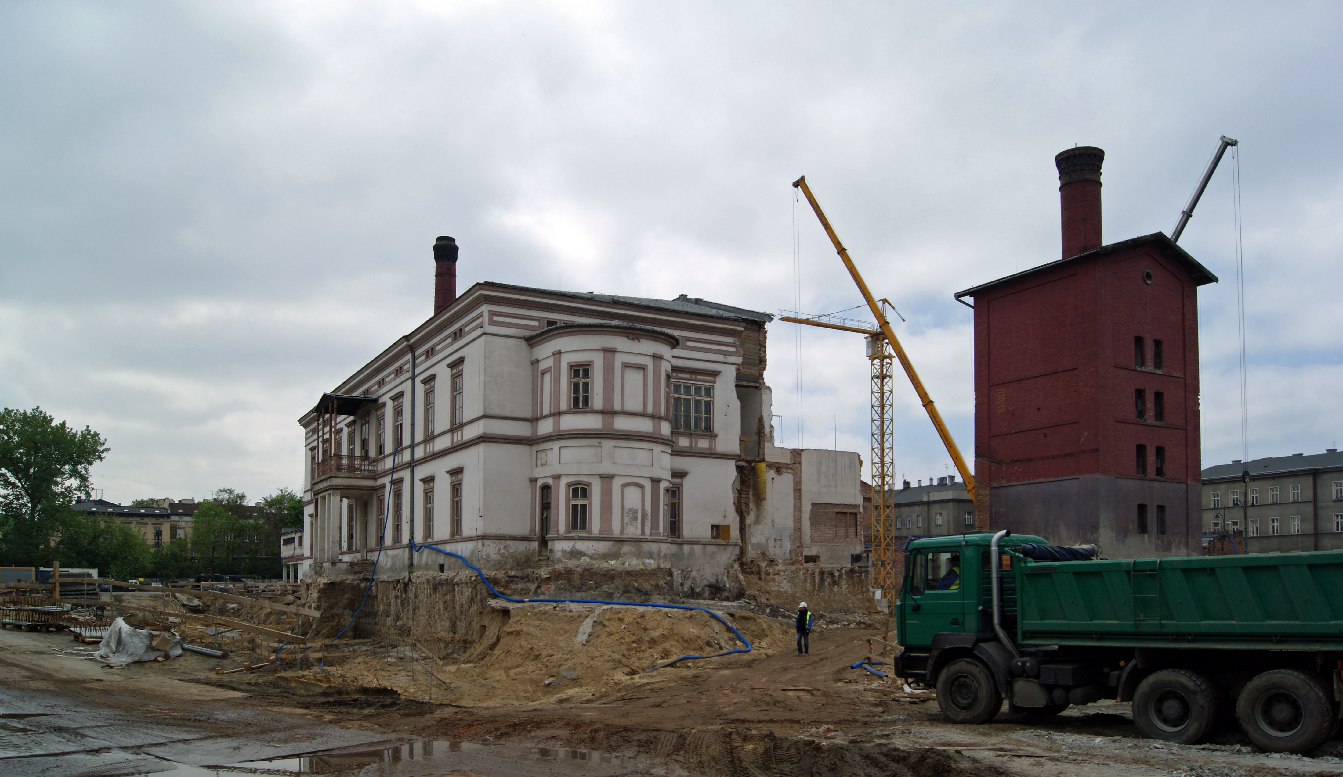 Old Brewery, 13-17 Lubicz street, Krakow, Poland